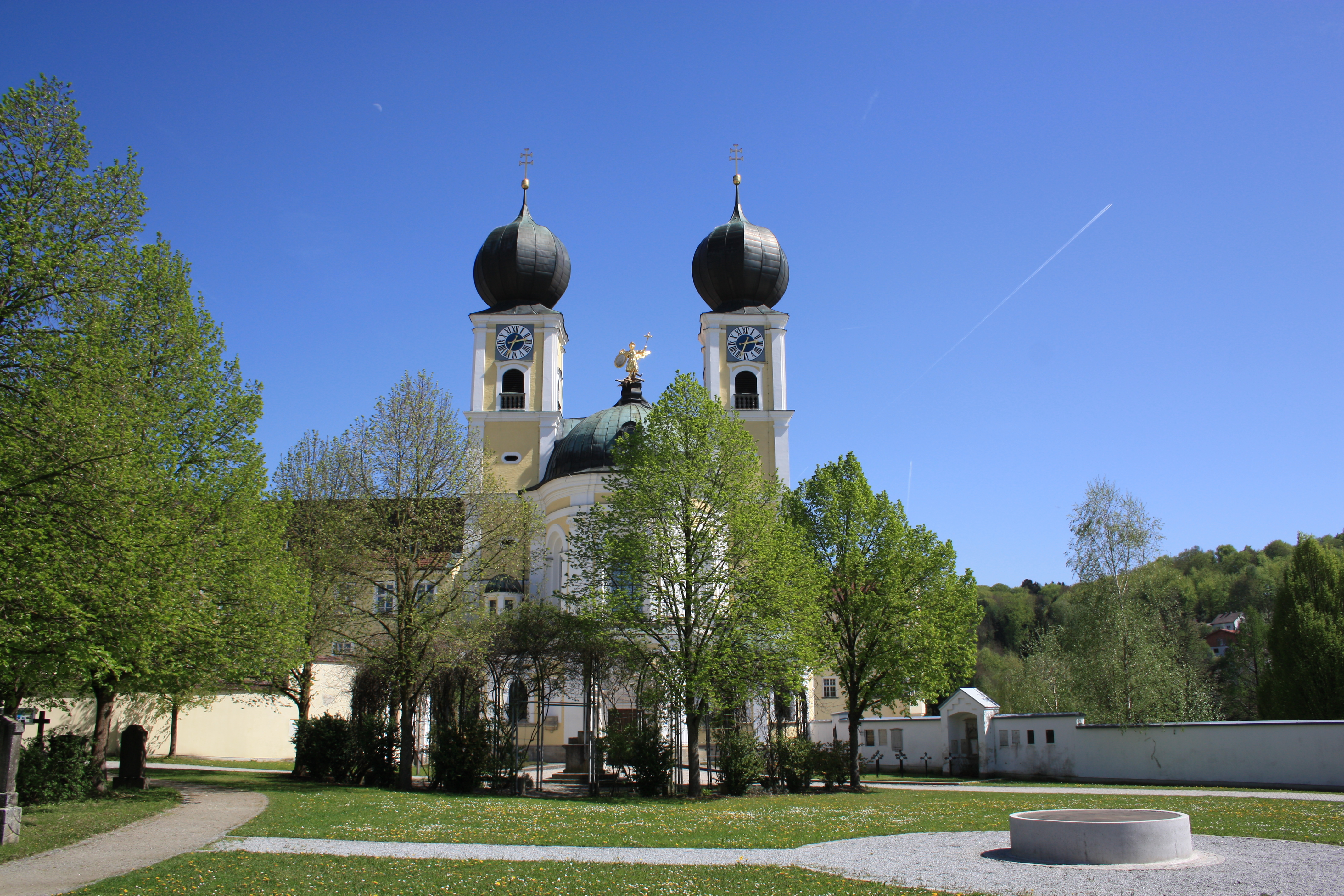 This is a photograph of an architectural monument.